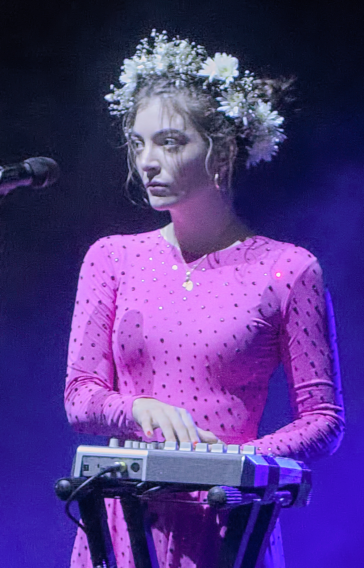 Lorde wearing a flower crown performing Loveless at the Riverstage in Brisbane Australia [23 November 2017], as part of the Melodrama World Tour.